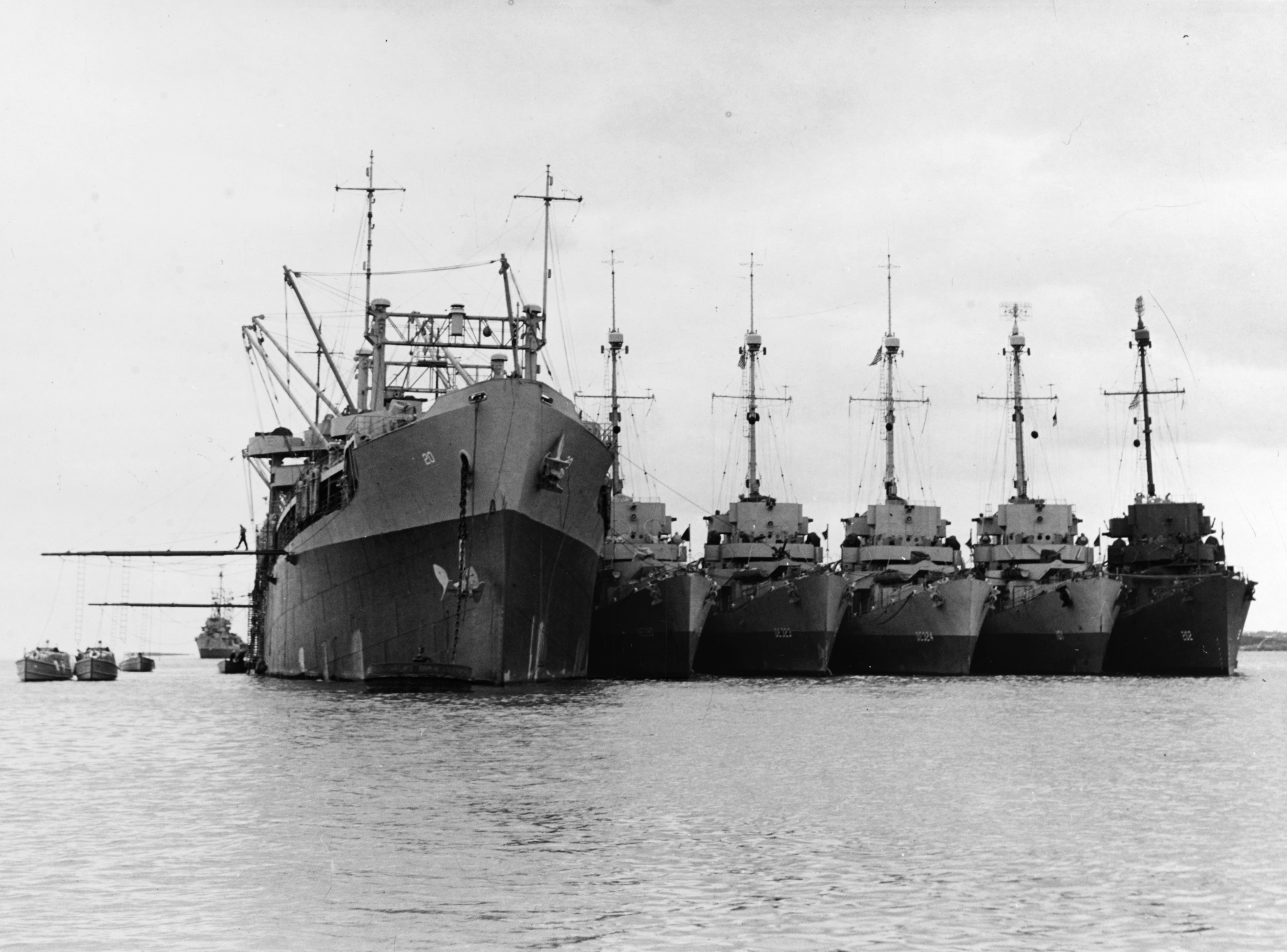 The U.S. Navy destroyer tender USS Hamul (AD-20) at Bermuda in early 1944, while serving as flagship of the DD-DE shakedown group (CTG-23.1). Alongside are the destroyer escorts USS Calcaterra (DE-390), USS Pride (DE-323), USS Falgout (DE-324), USS Alger (DE-101) and USS Eichenberger (DE-202).